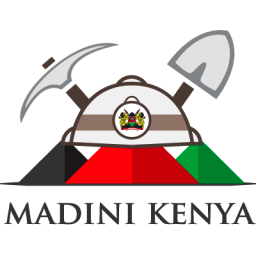 Logo of the Ministry of Mining in Kenya Kiswahili: Nembo ya Wizara ya Madini